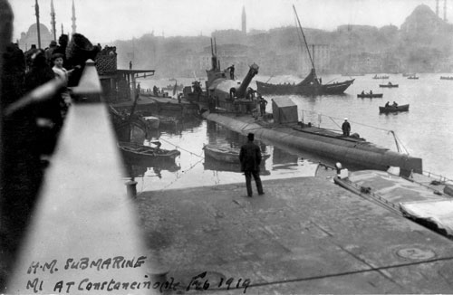 HMS M1 in Constantinople